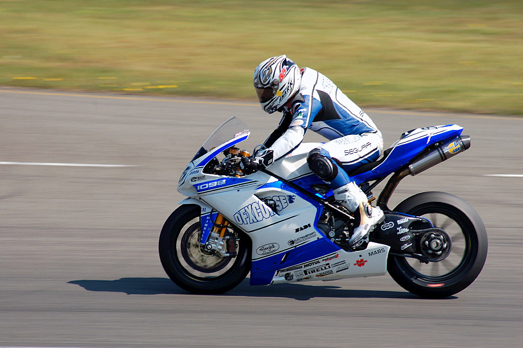 26 april Assen 2009 round 4 WSBK